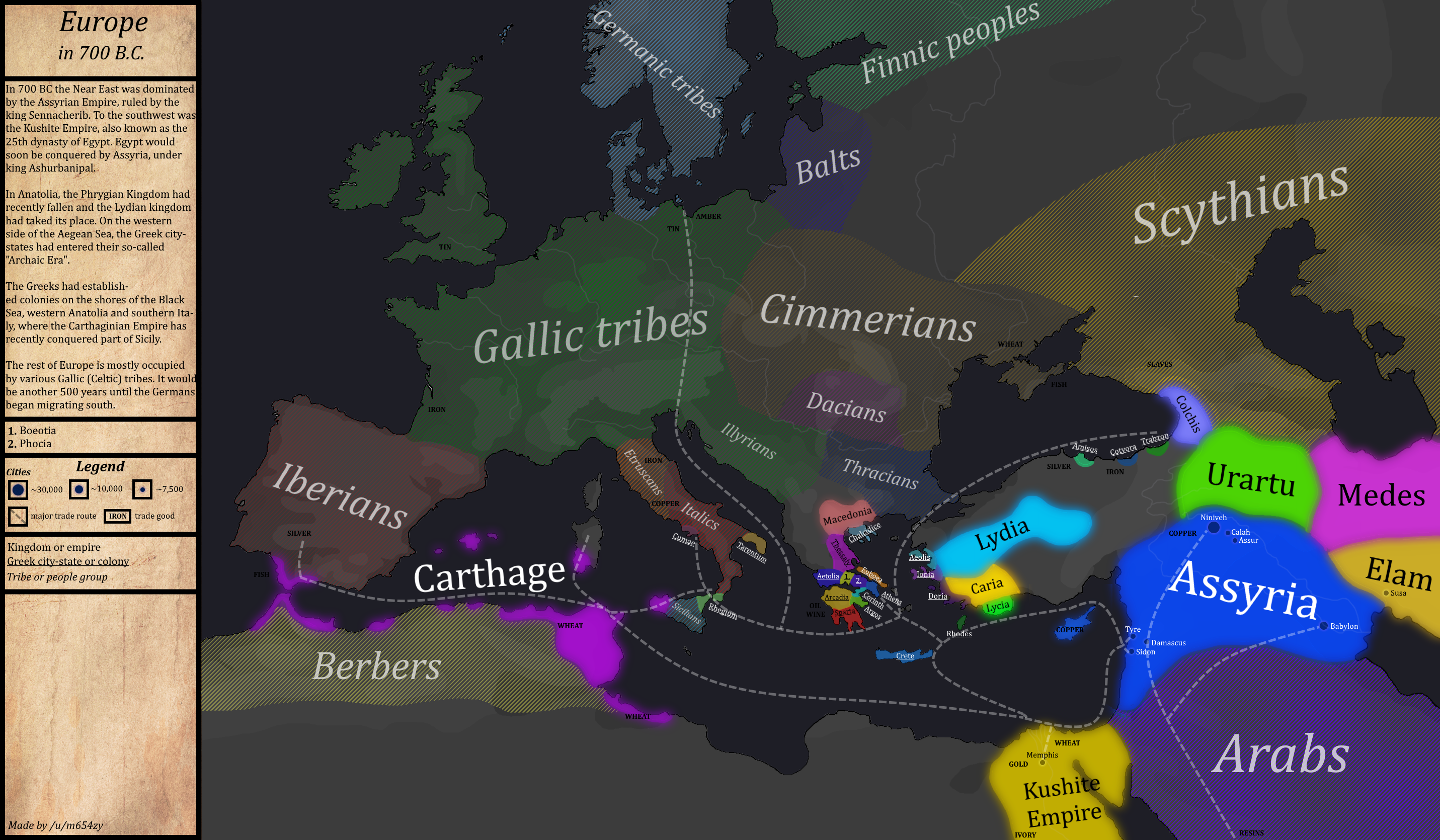 Europe, North Africa and the Near East in the year 700 BC.